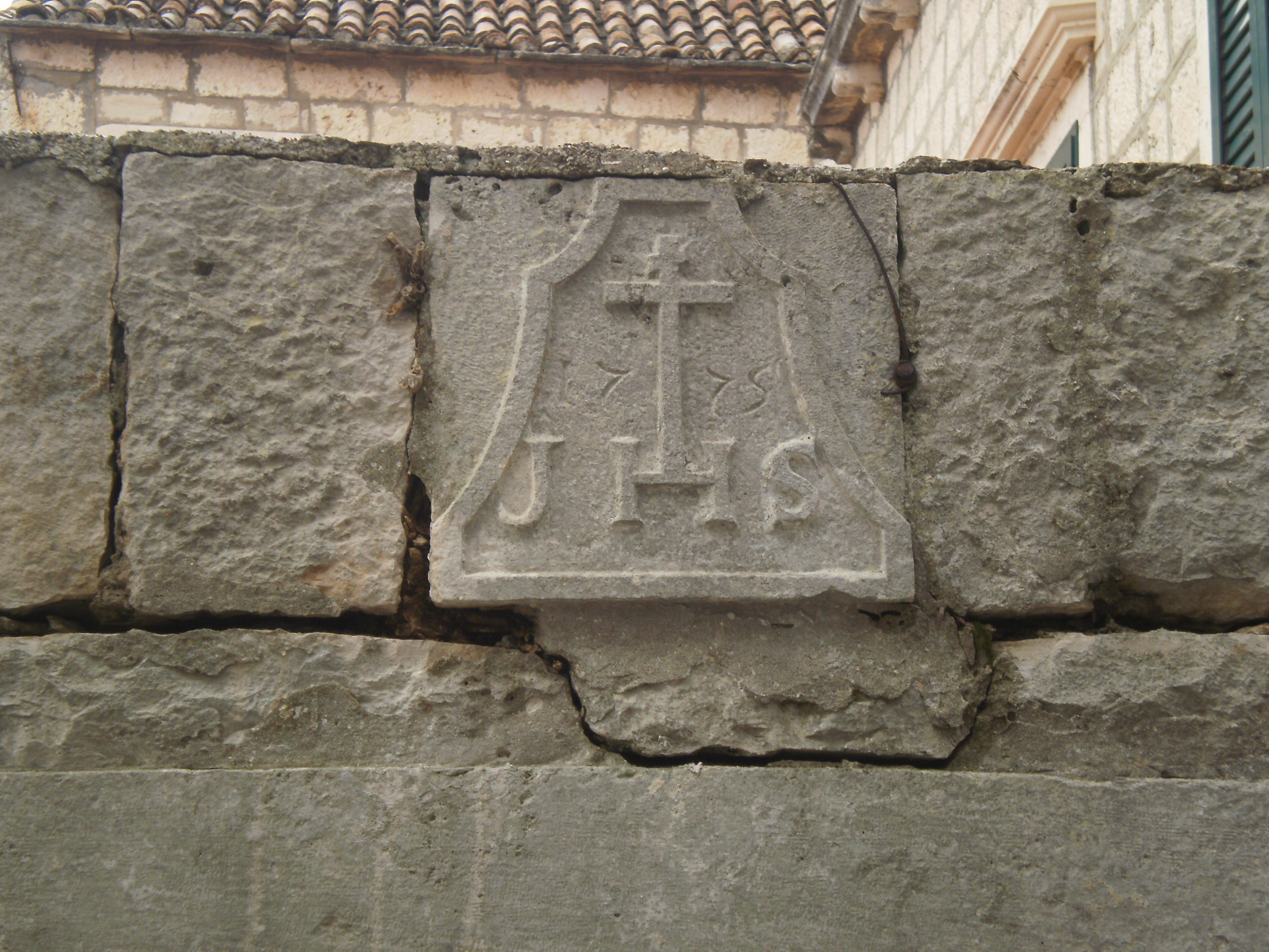 In hoc signo vinces,carved above an entry door, Orebić